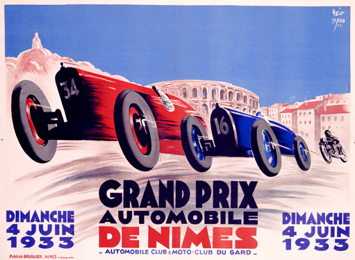 Poster of the 1933 edition of the Grand Prix of Nîmes